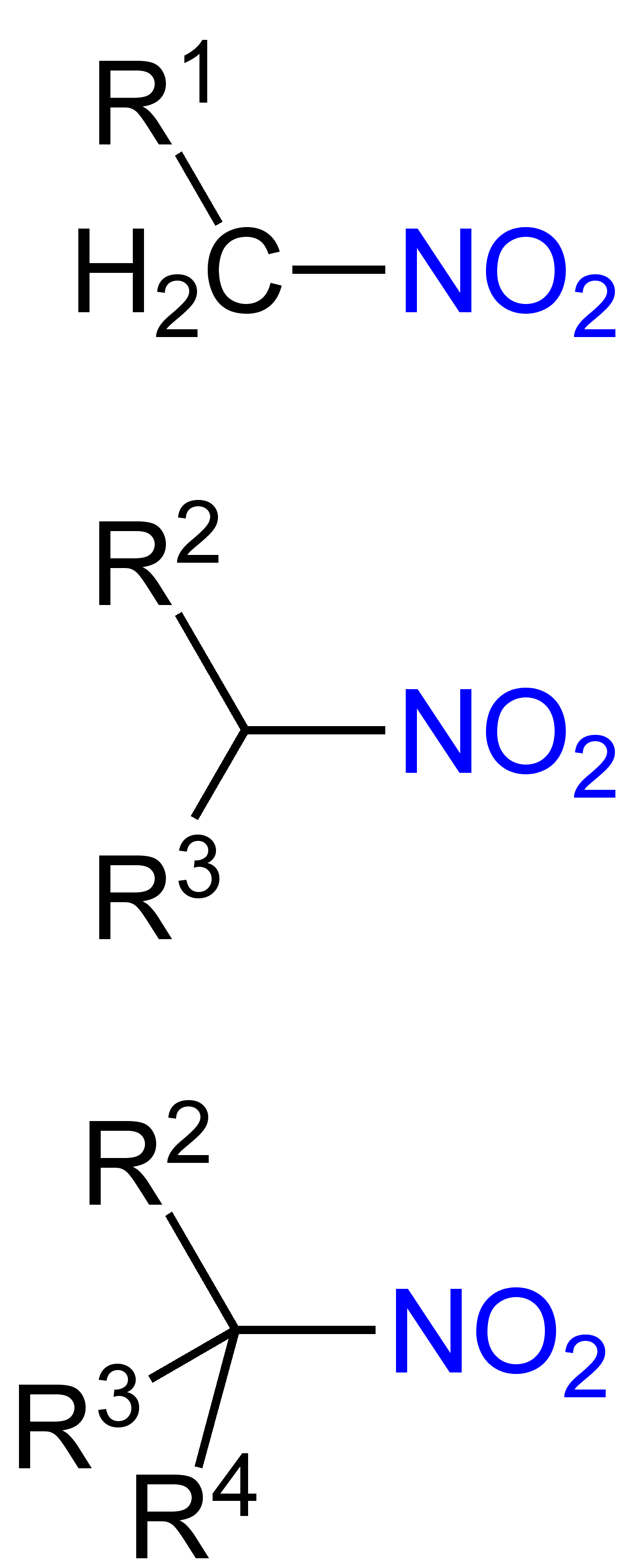 Nitroalkanes_General_Formulae